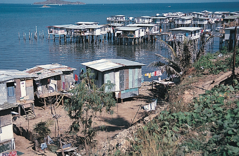 In southern coastal areas of Papua New Guinea, the shortage of land encourages people to build houses over the water. Traditionally, this was also useful for defence. This view shows houses build over the water in the Port Moresby suburb of Koki.